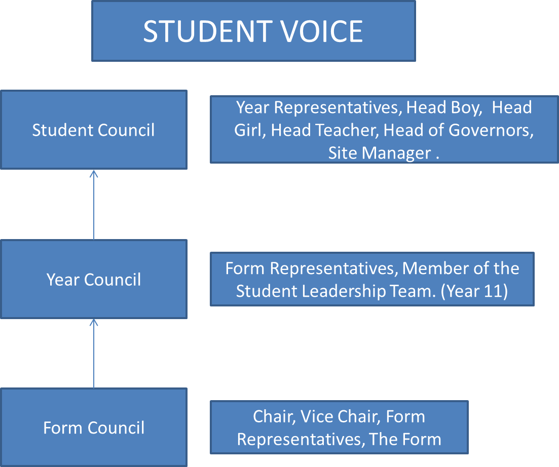 This shows how the school council works at court moor